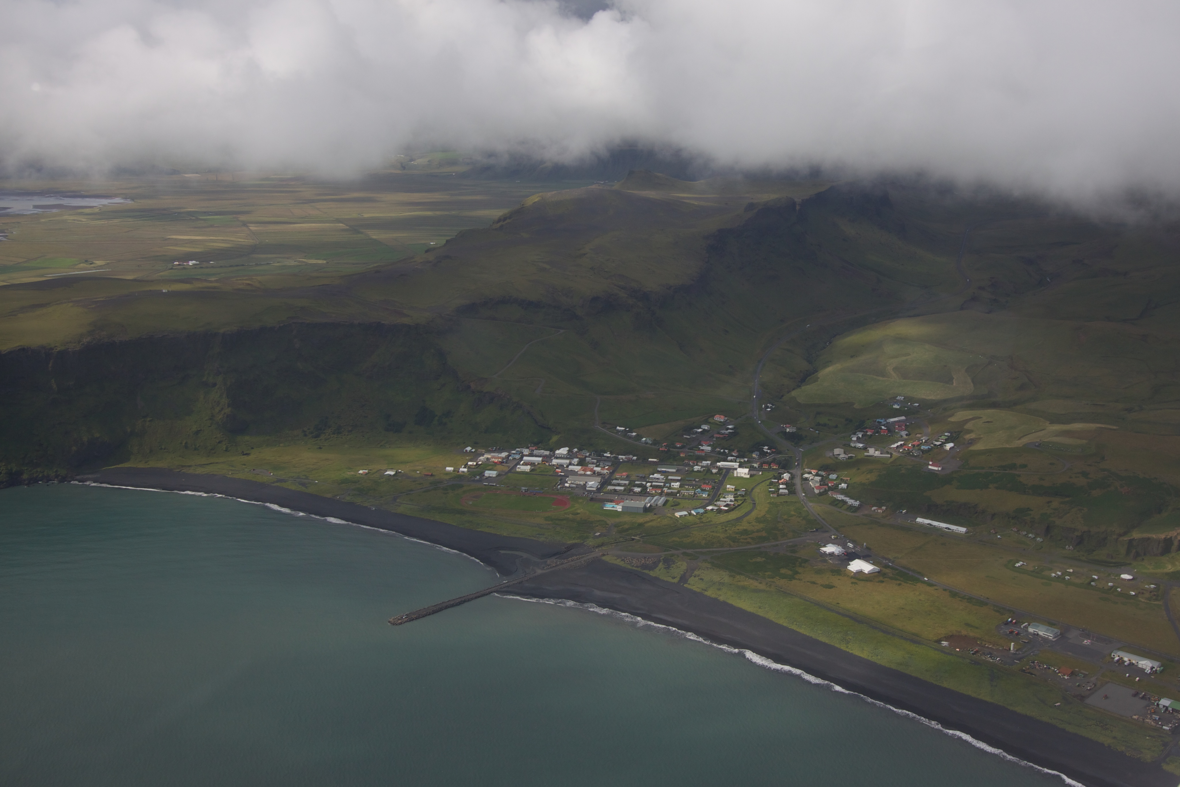 Vík i Myrdal from above, august 2011